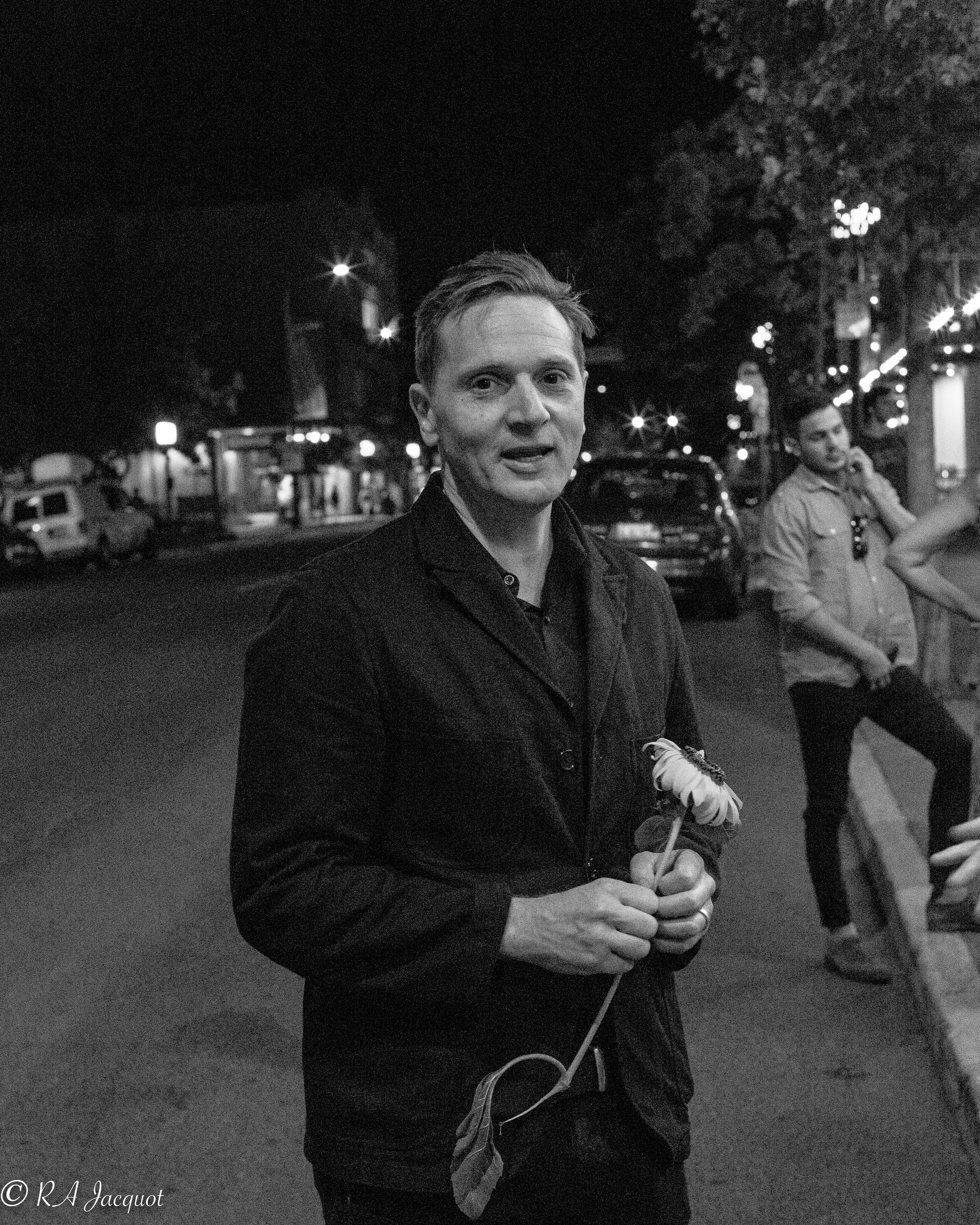 Captain Fantastic Writer & Director Matt Ross.jpg